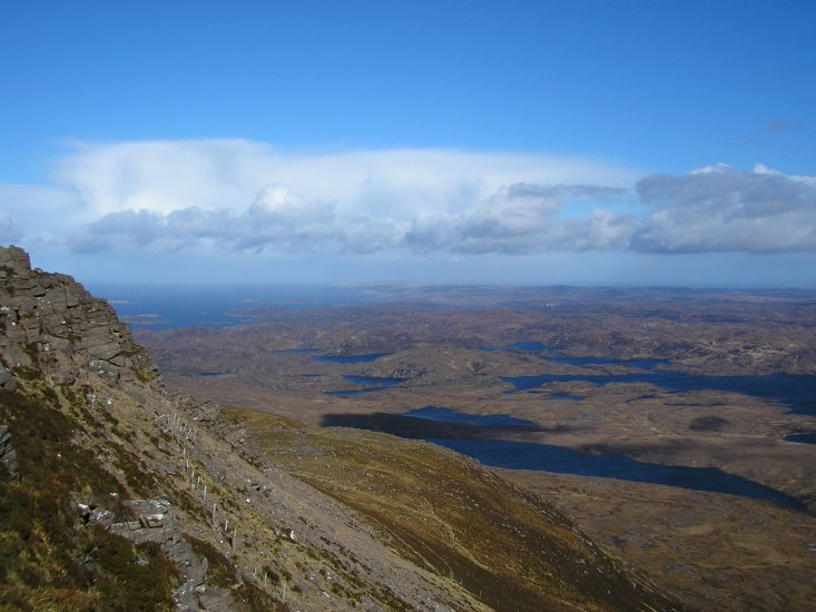 View over Inverpolly from Stac Pollaidh. Taken by User:Ginner on 4th April 2005.